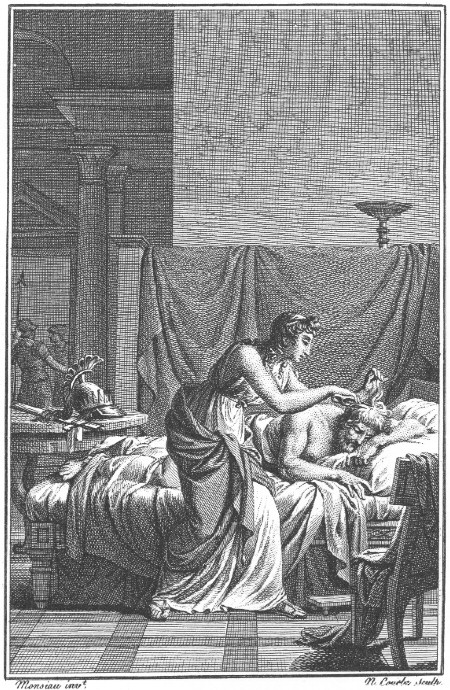 Scylla and Nisus. Scylla cutting her father's purple hair. Drawing by Nicolas-André Monsiau (1754-1837) in Les Métamorphoses d'Ovide, Paris 1806